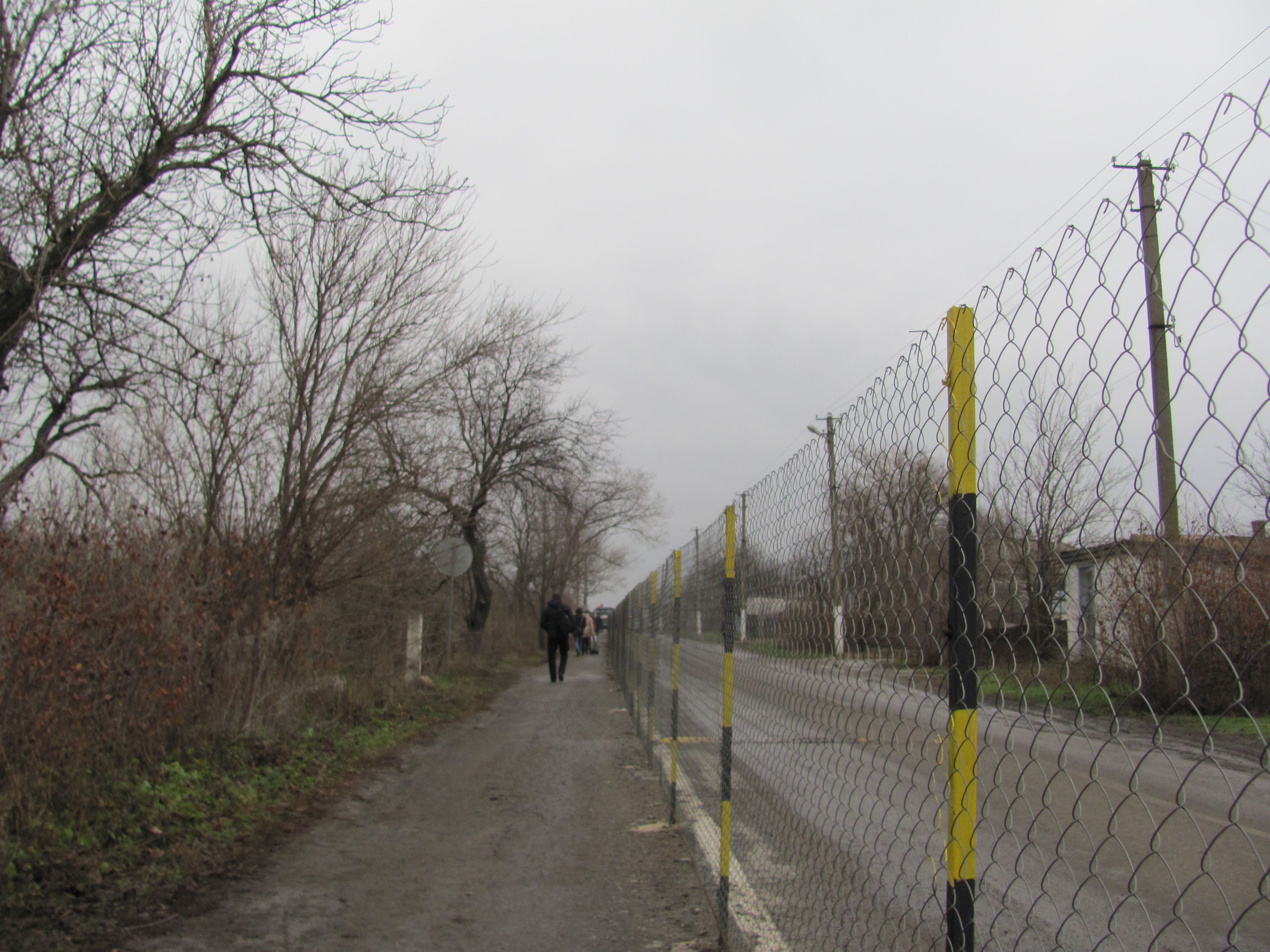 The village of Pischevik is located in the Volnovakha district of the Donetsk region. By 2014, the village was part of the Novoazovsk district.